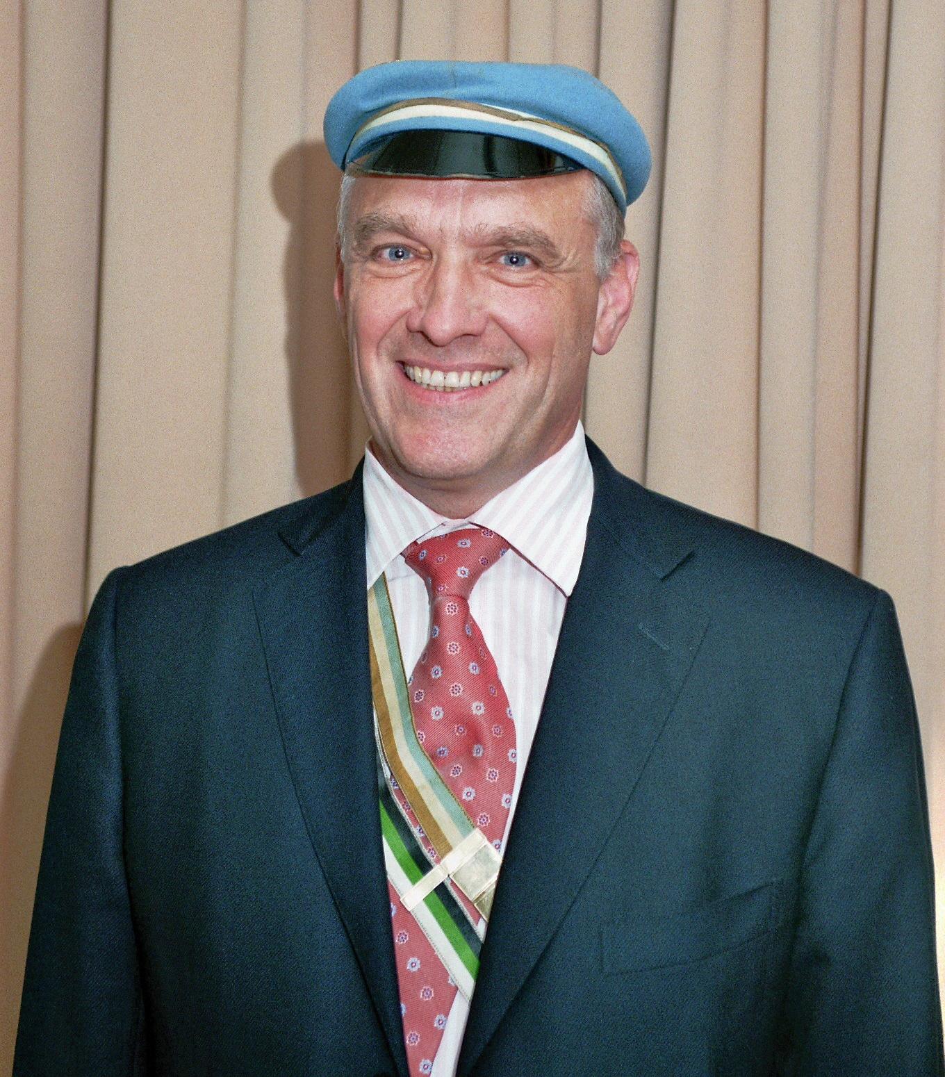 Frieder Löhrer, CEO of German TV set manufacturer Loewe AG and chairman of the students' association "Weinheimer Verband Alter Corpsstudenten" (WVAC), posing with the colours of his students' fraternities